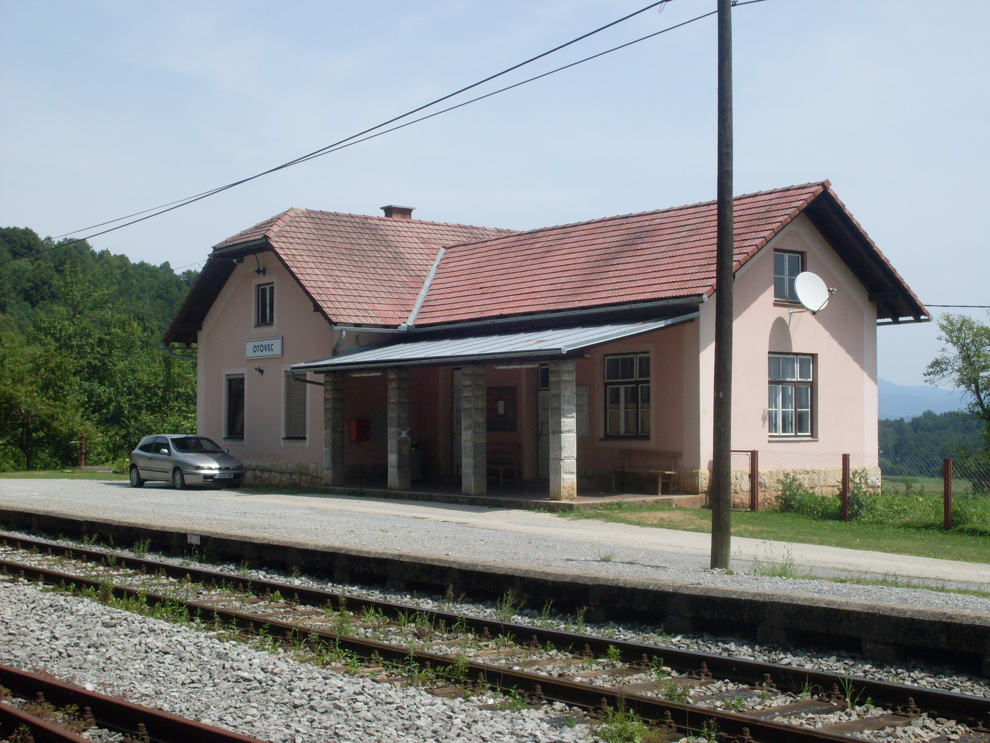 Railway halt Otovec, actually located in Sela pri OtovcuSlovenščina: Železniško postajališče Otovec, pravzaprav se nahaja v Selih pri Otovcu